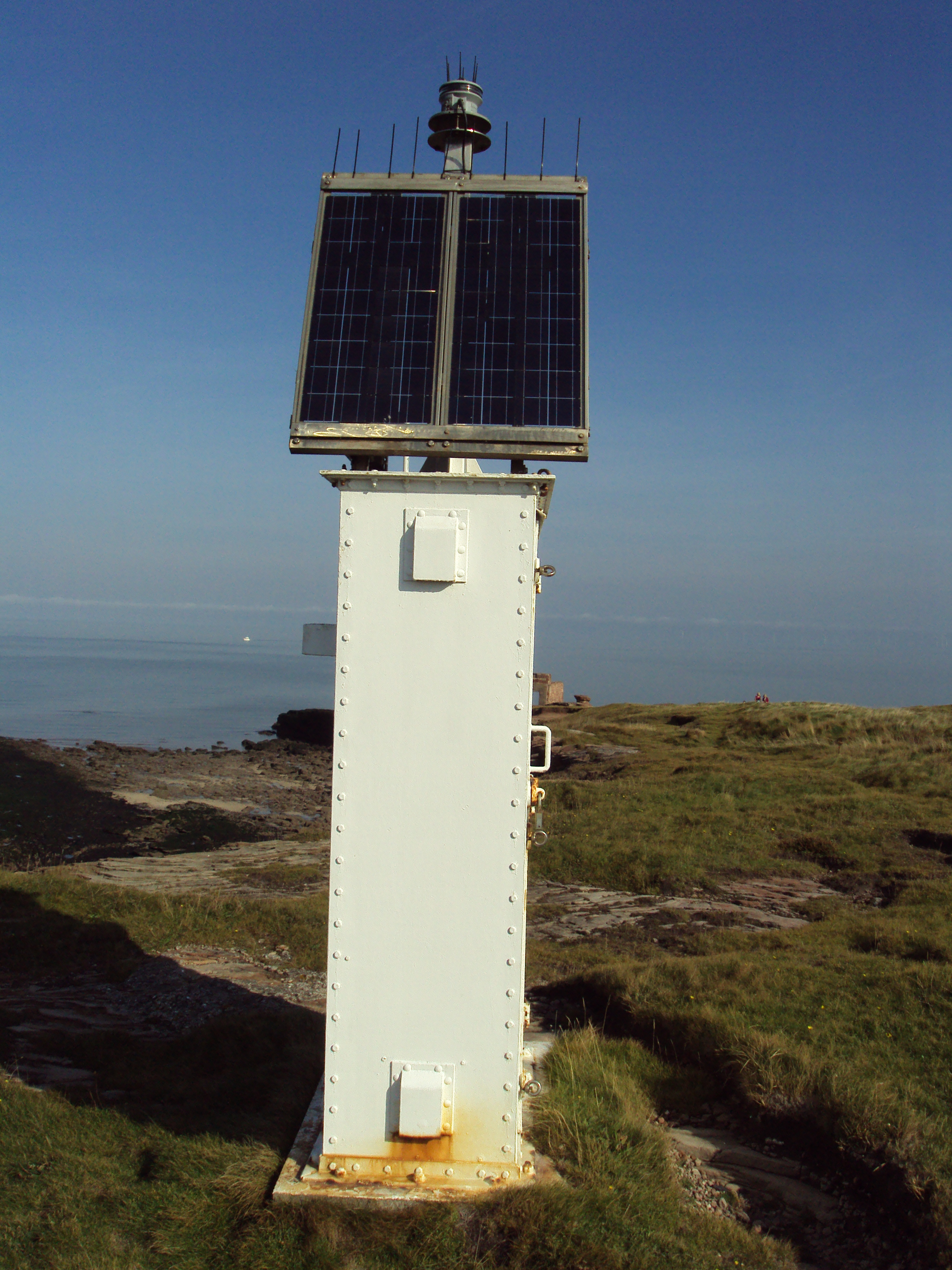 Solar panels on the lighthouse at Hilbre Island, Wirral, England.